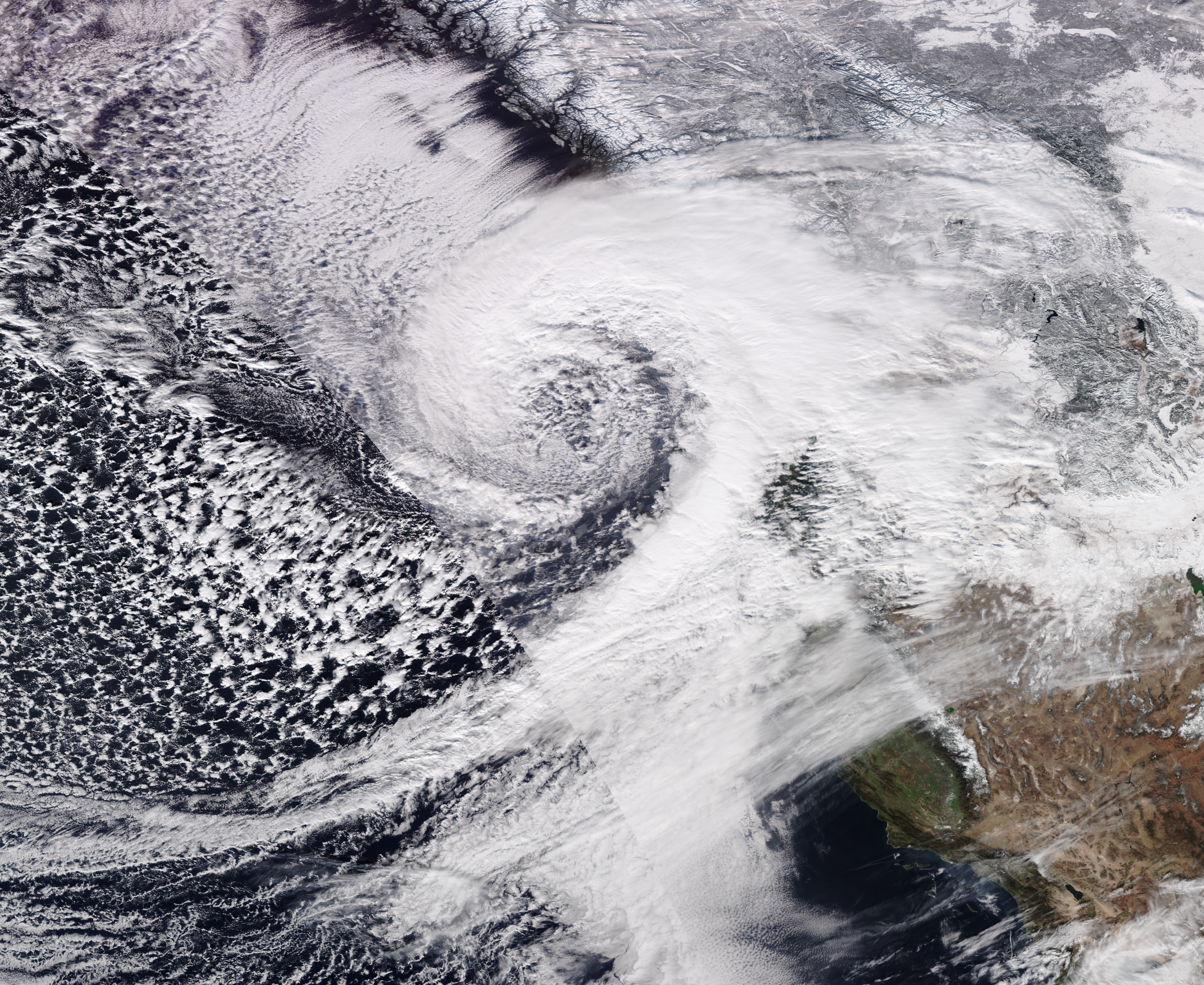 Winter Storm Jacob approaching the Pacific Northwest coast of the United States on 15 January 2020. After crossing North America, the system would later become Storm Gloria, going on to cause severe damage across southern Europe.